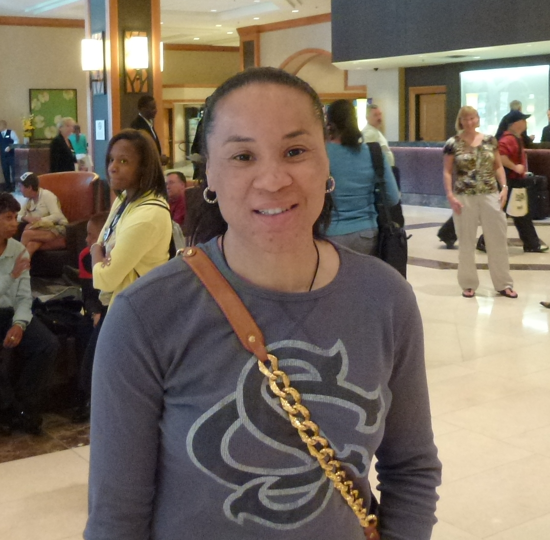 Dawn Staley, head coach of the South Carolina women's basketball team. Taken at the 2012 WBCA Convention in Denver Colorado.